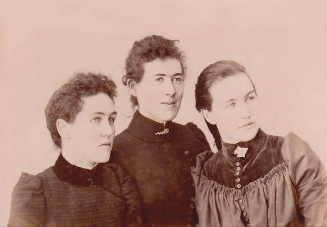 Stella Henderson:Stella, Kathleen and Elizabeth Henderson talented sisters in 1890s in New Zealand